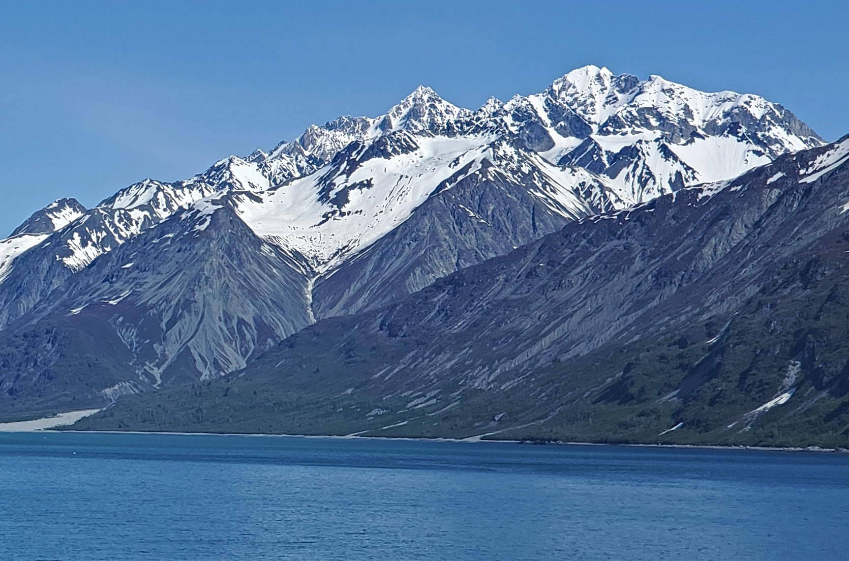 Mount Barnard in Alaska seen from Tarr Inlet